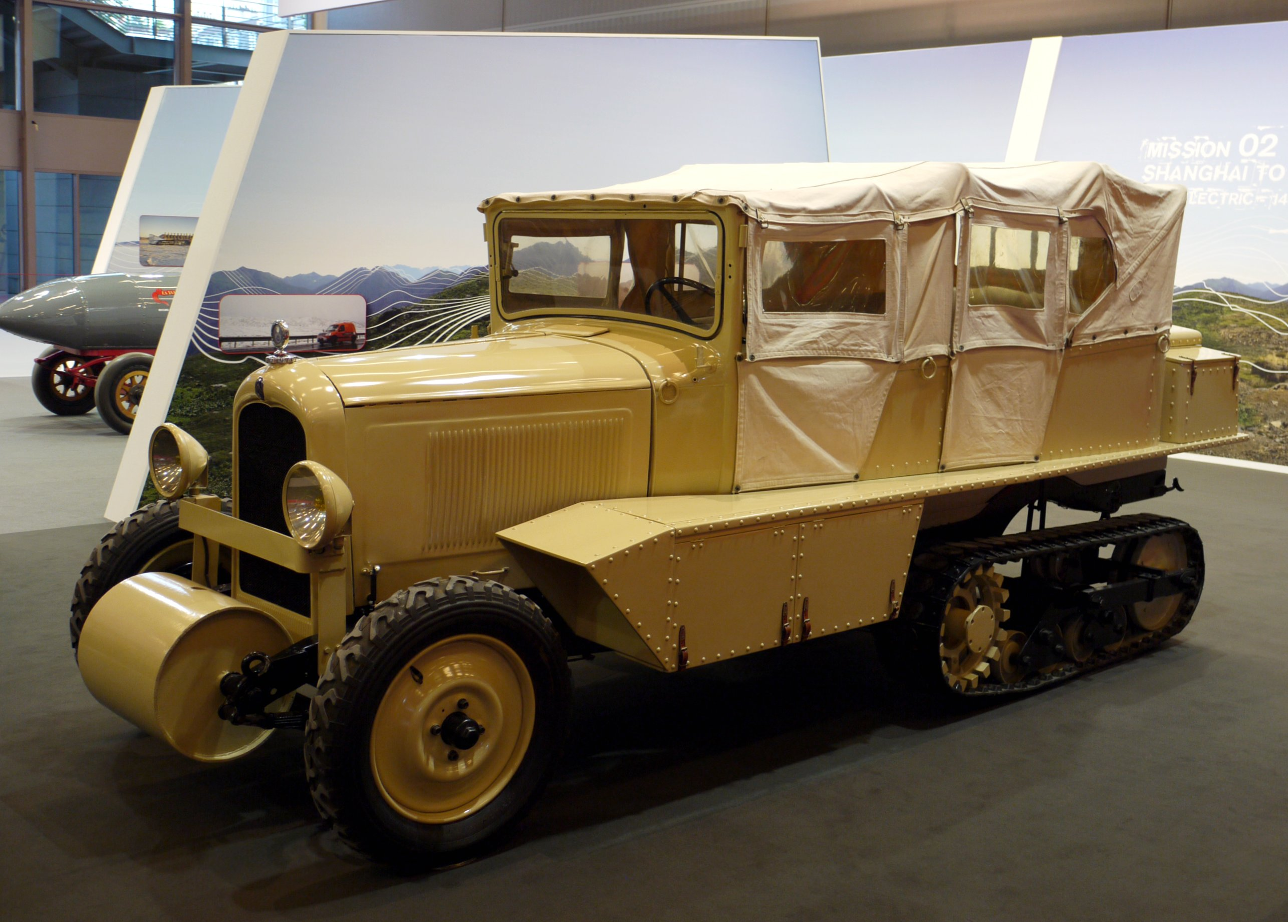 Citroën Kégresse - used in the Croisière Jaune expedition between Apr, 6 1931 and Feb,12 1932.